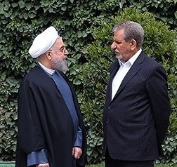 Iranian President Hassan Rouhani and his Vice President, Eshaq Jahangiri after a cabinet meeting